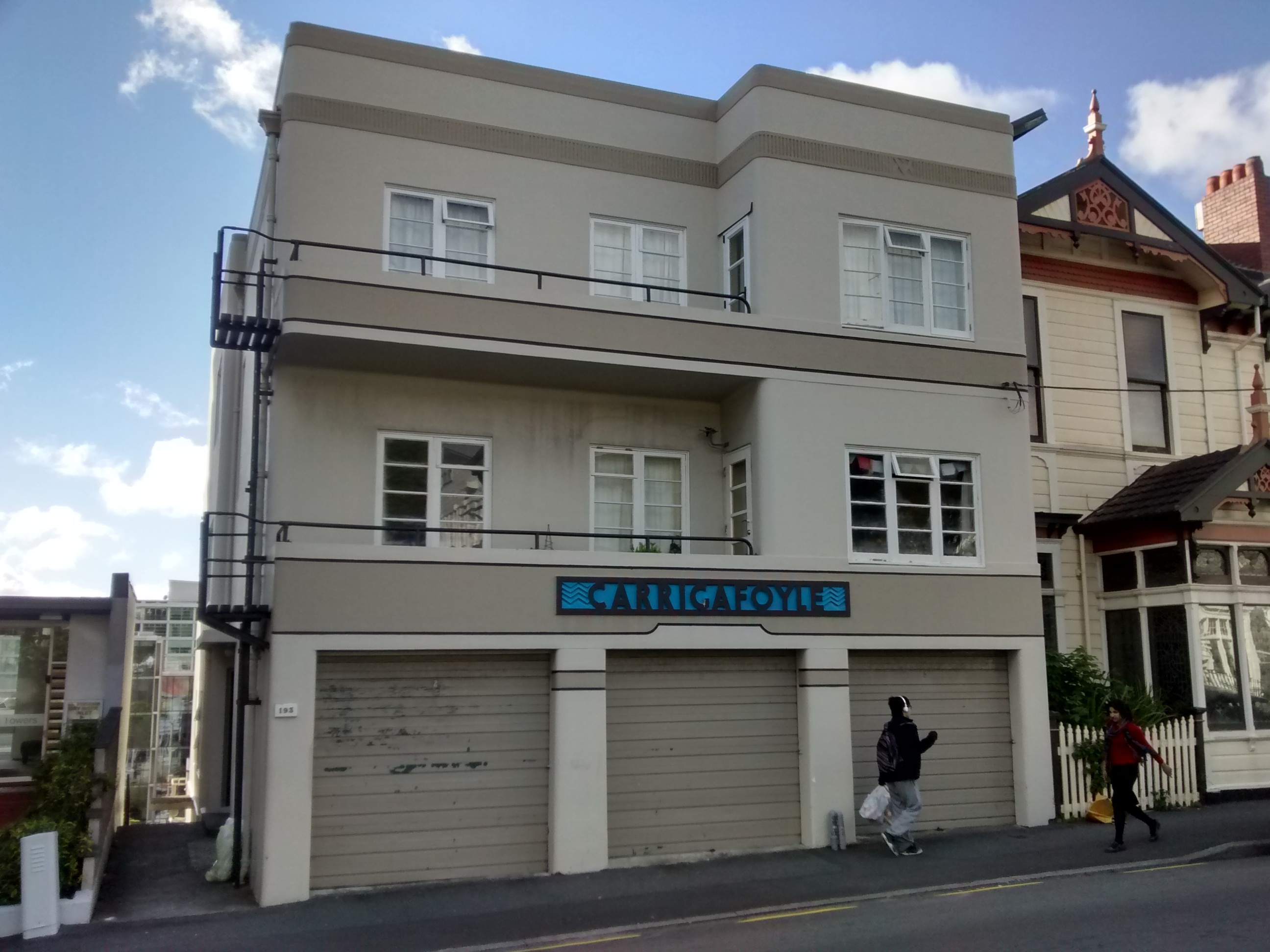 This building on the Terrace in Wellington, New Zealand is also confusingly called Carrigafoyle, although it is not the Heritage New Zealand listed building (which is visible to the right of the building in the centre)